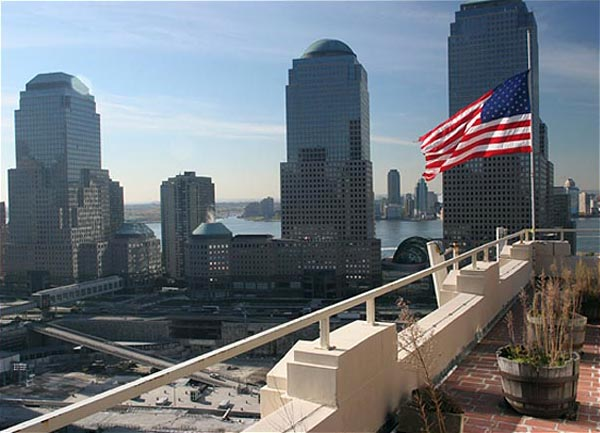 Photo of Ground Zero taken by Robert Swanson ( Ryssby. Attribution should read "Photo by Robert Swanson (